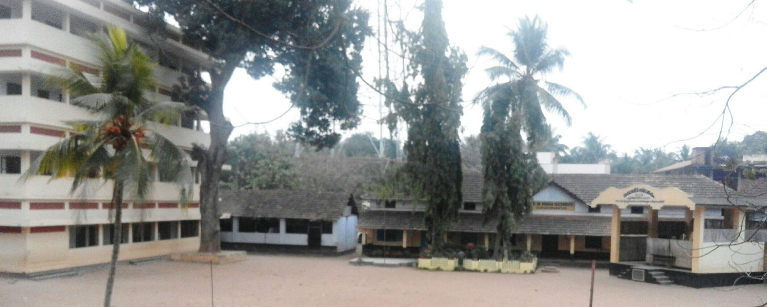 Parappanangadi, Malappuram District, Kerala province, India